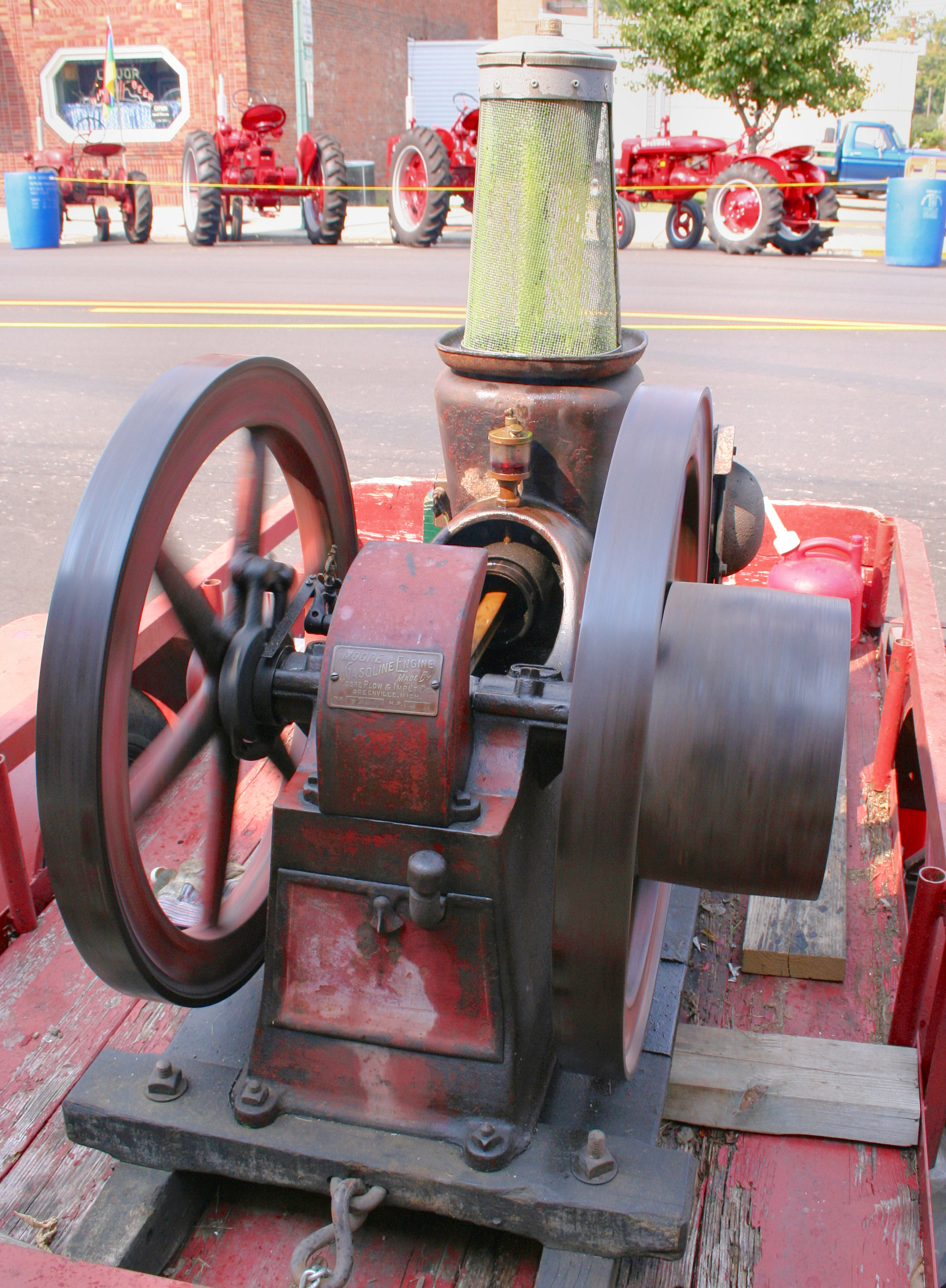 Early gasoline-powered internal combustion engine with one cylinder (c. 1910), originally used to power a saw. The apparatus on top is a wire mesh radiator. The plaque reads: Moore Gasoline Engine Made by Moore Plow & Impl't Co. Greenville, Mich. No. 926 - H.P. 4 Photo shot by Derek Jensen (Tysto), 2005-September-10